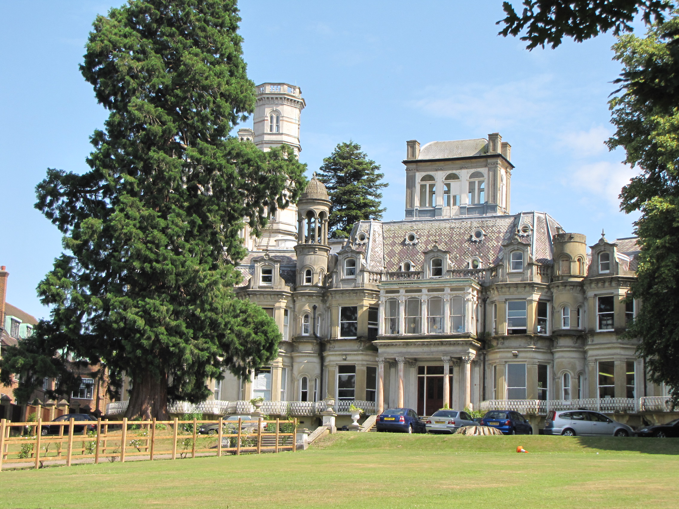 Caldecote Towers, Immanuel College